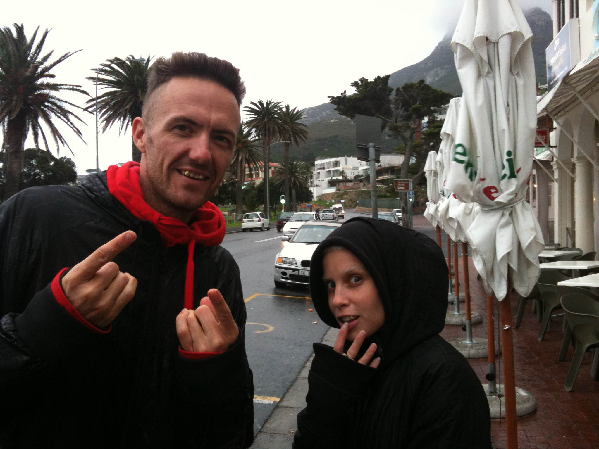 Ninja and Yolandi of Die Antwoord on the street.